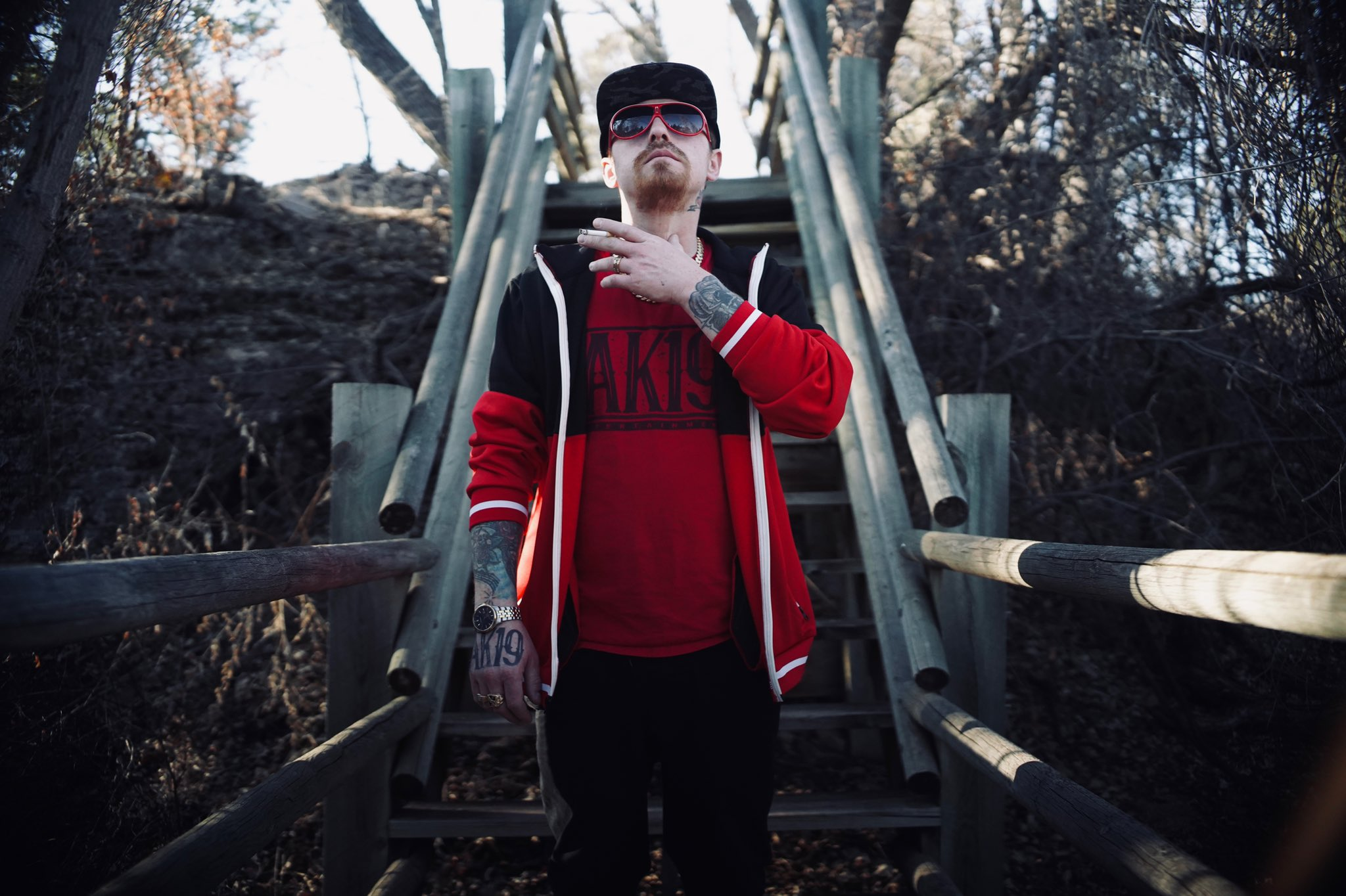 The music artist Blacklite District